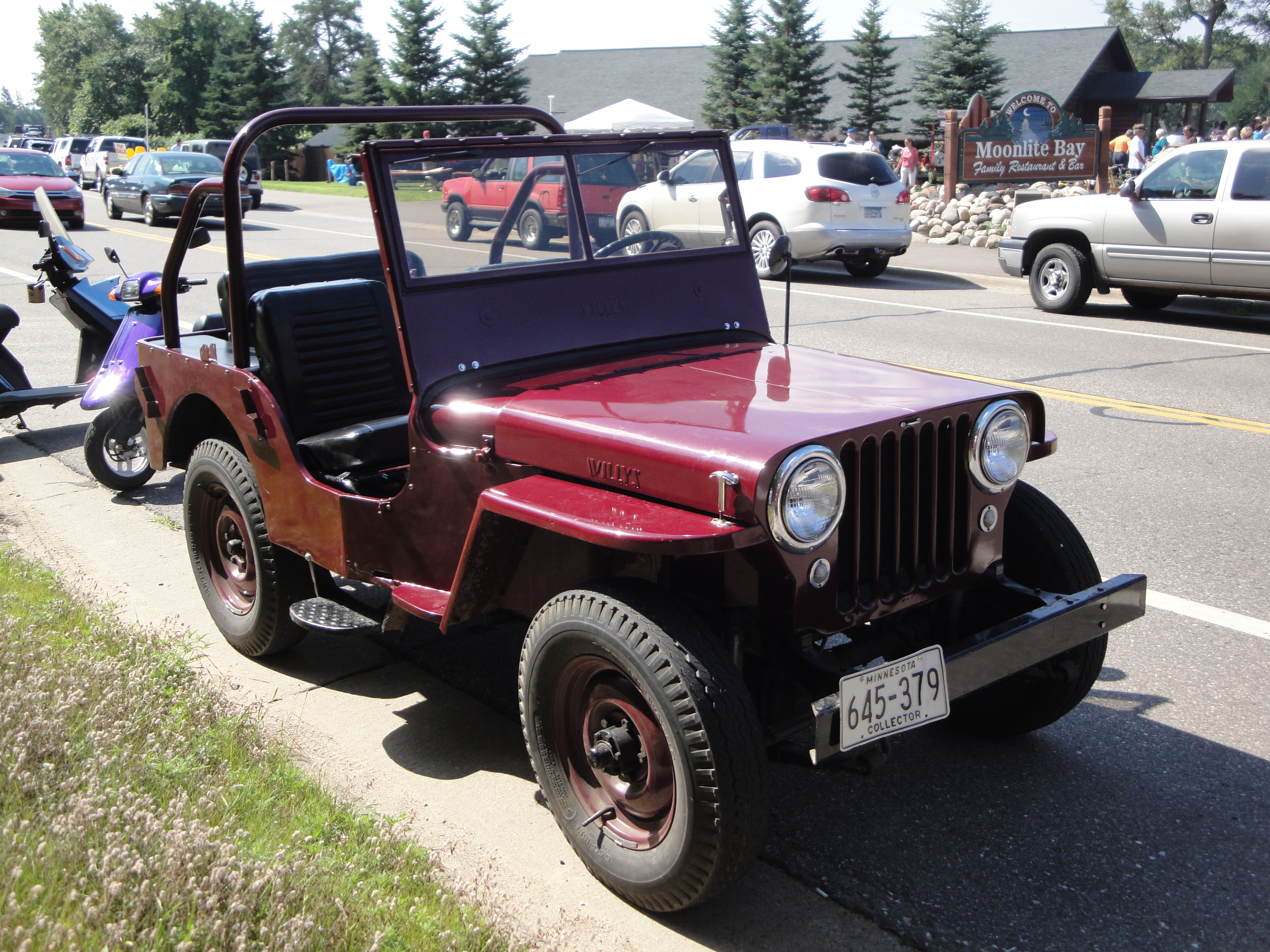 25th Annual Antique & Classic Wood Boat Rendezvous